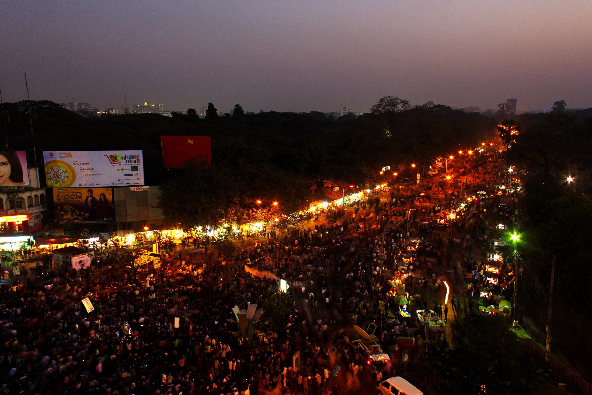 Top view of Shahbag- Projonmo Chottor , where people of all ages are protesting against the war criminals of 1971's war .